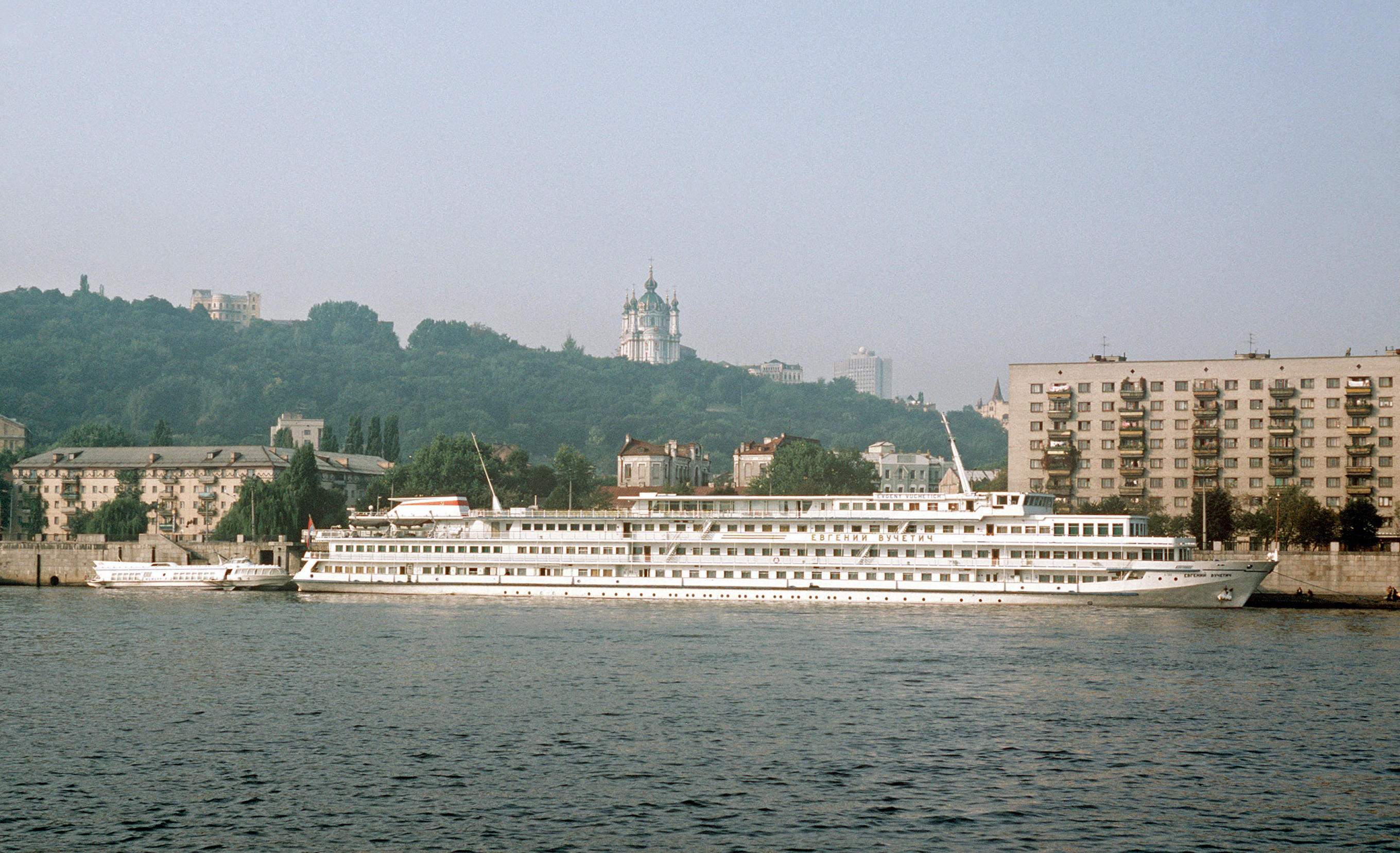 A starboard view of one of the large excursion ships (Yevgeniy Vuchetich right) on the Dneiper River. Kiev is one of the favorite vacation spots for people in the Ukrainian region, having many parks and resorts along the river banks.